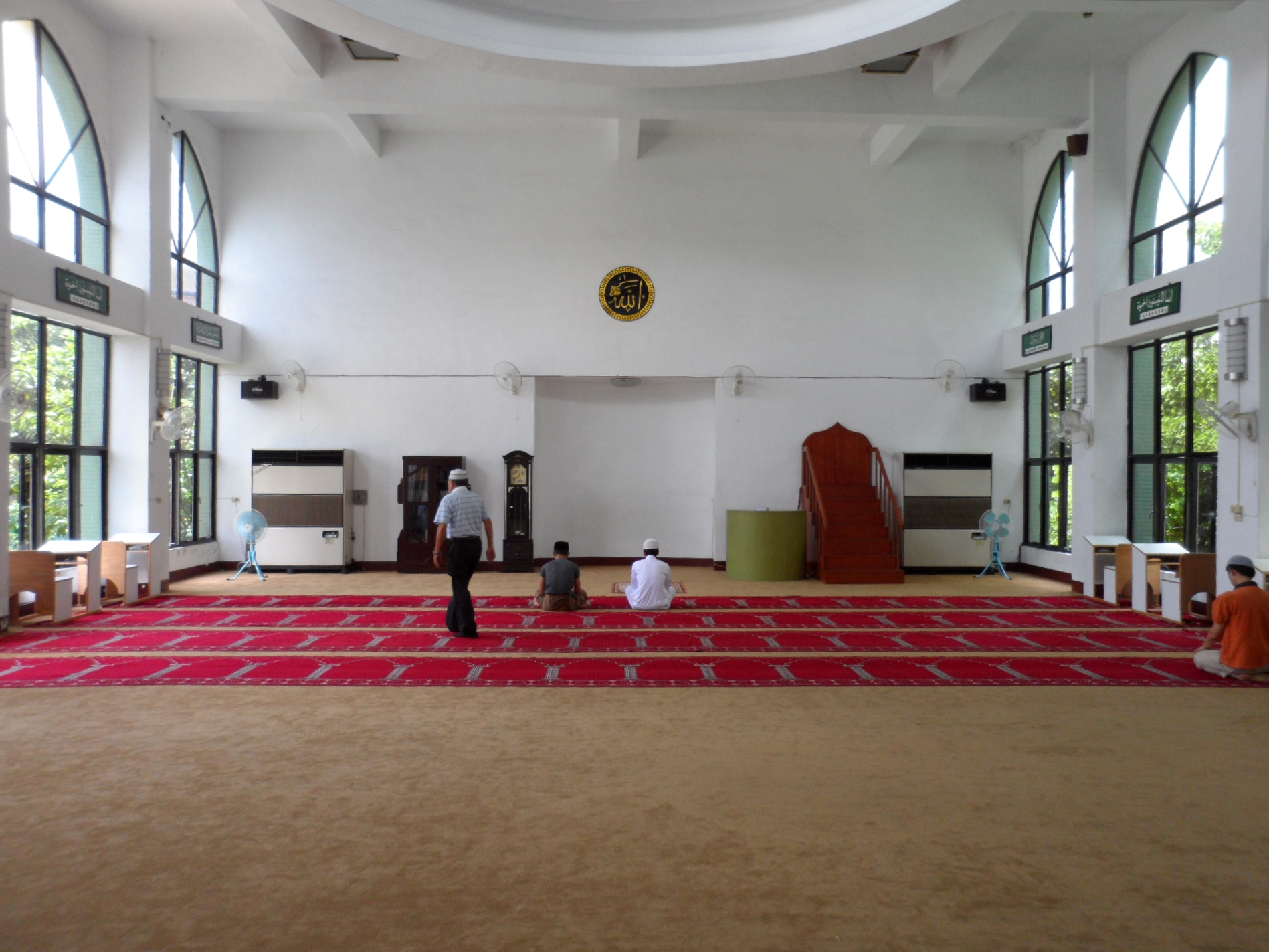 Taichung Mosque Prayer Hall, Nantun District, Taichung City, Taiwan